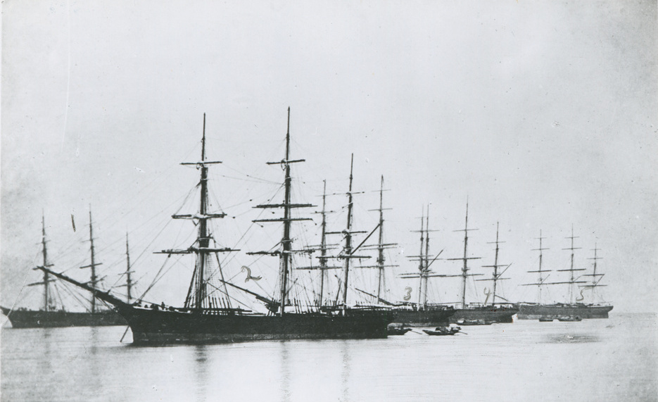 The composite ships 'Black Prince' (1), 751 tons. [composite ship, 751 tons. ON48501. 185.0 x 32.0 x 19.0. Built 1863 (8) A. Hall and Co. Aberdeen. Owners: Charles L. Norman, registered London, later W. Inglis. Drops from the register before 1887.] 'Taeping' annotated as Peking (3), 767 tons, 'Ariel' (4), 853 tons, and the wooden ships 'Fiery Cross' (2), 888 tons, 'Flying Spur' (5), 735 tons, at Foochow. Some of the ships known as the Tea Clippers and China Traders. This image is from the A.D. Edwardes Collection of about 8,000 photographs, mostly of sailing ships from around the world, taken between about 1865 and 1920. Mounted in 91 albums, the photographs are arranged by country of ownership, with some special volumes such as 'Shipping at Port Adelaide' and 'South Australian outports'. Additional information, giving the history of the ships where known, has been provided by maritime historian, Ron Parsons Description on page 128 of Clipper Ships and the Golden Age of Sail: Races and Rivalries on the ... By Sam Jefferson: The Pagoda Anchorage, Foochow, in 1866. The Tea Clippers lined up awaiting their cargo. Pictured left to right: The 'Black Prince', 'Fiery Cross', the 'Taitsing', 'Taeping', and the 'Flying Spur'. See talk page for rationale